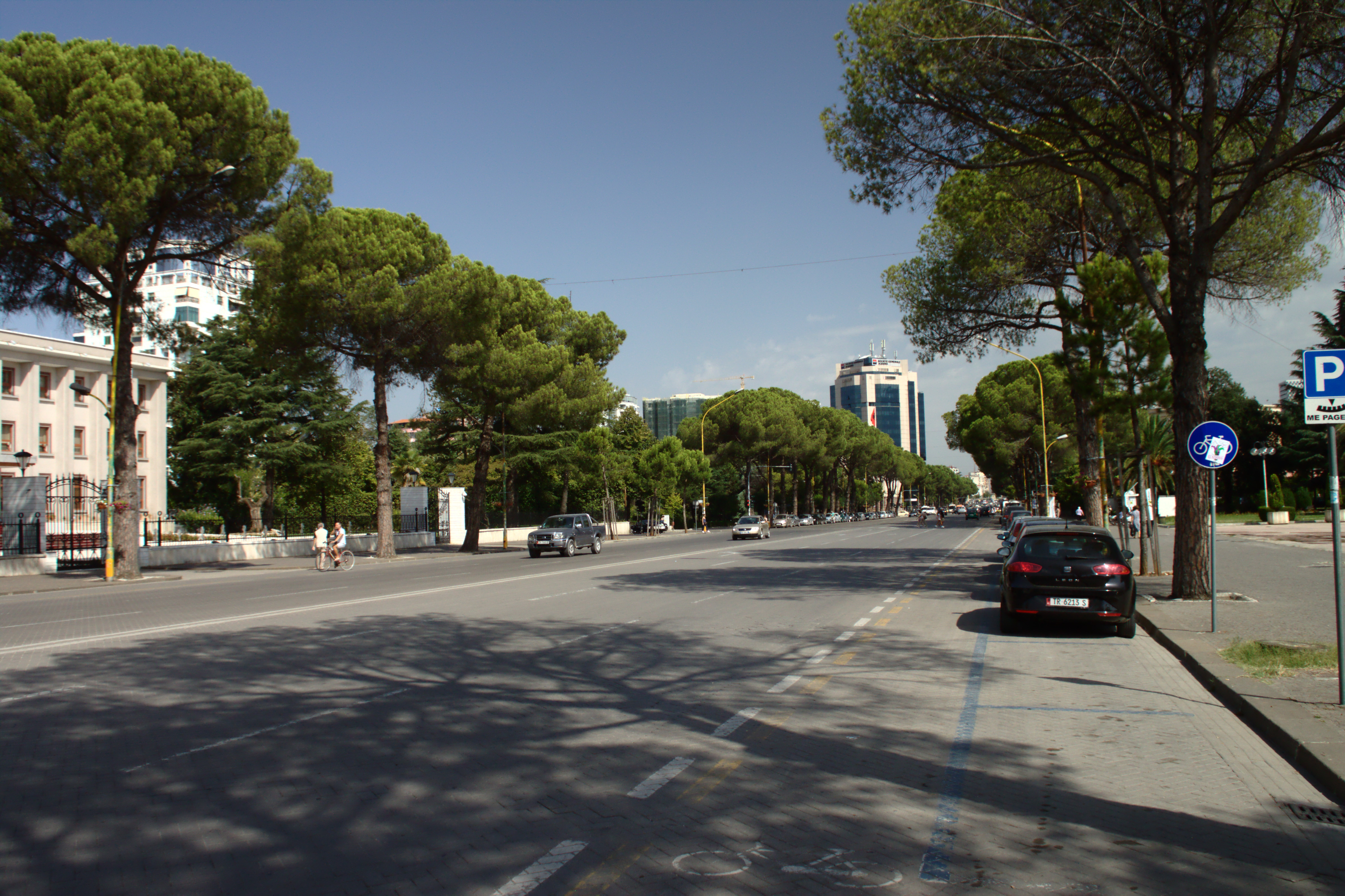 Dësmot i Kombit Street in central Tirana, Albania